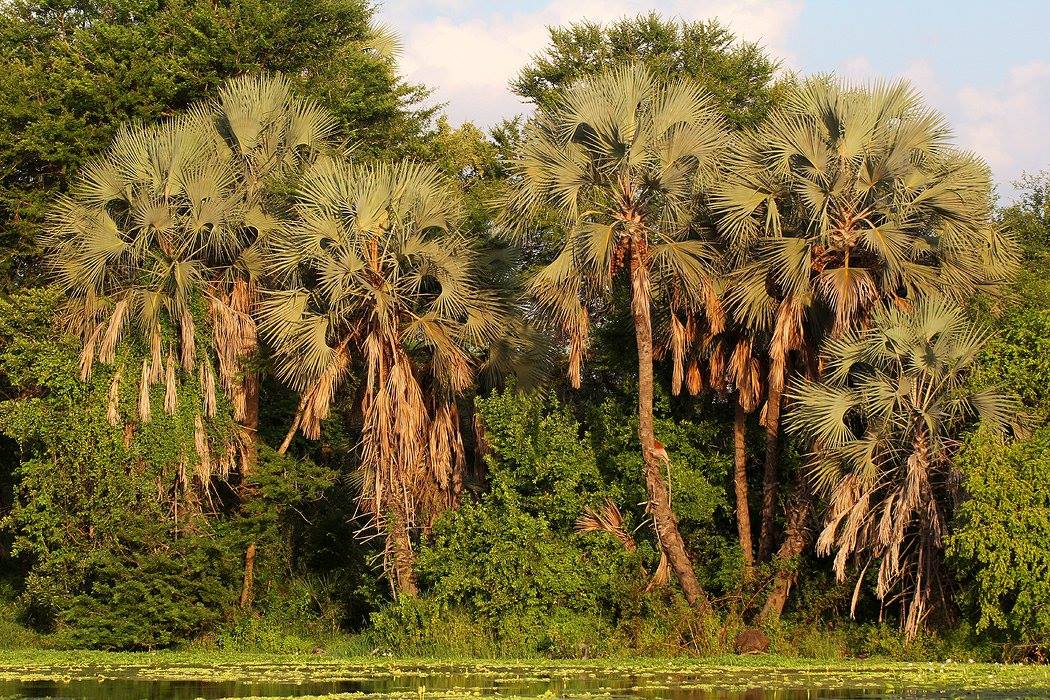 Hyphaene petersiana Klotzsch ex Mart. - Gorongosa Reserve, Mozambique